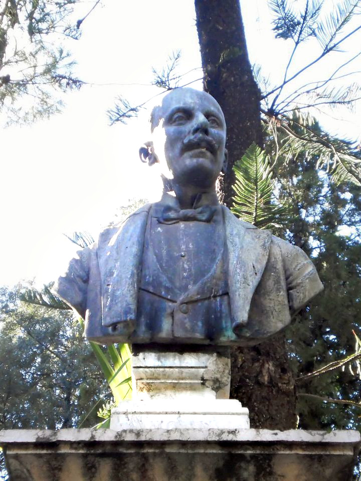 Portrait statue of Giacomo Natoli, Messina. Cropped from the original, some attempt to correct the over-exposure.